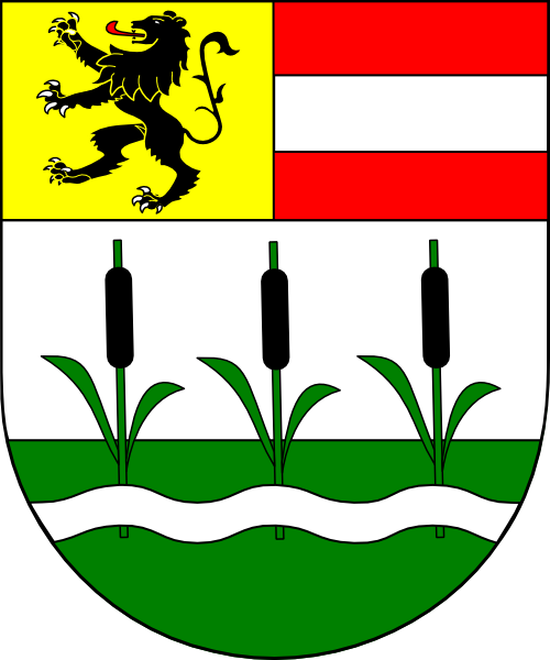 Coat of arms (shield only) of Andreas Rohracher, archbishop of Salzburg, Austria (1943 - 1969). Based on this